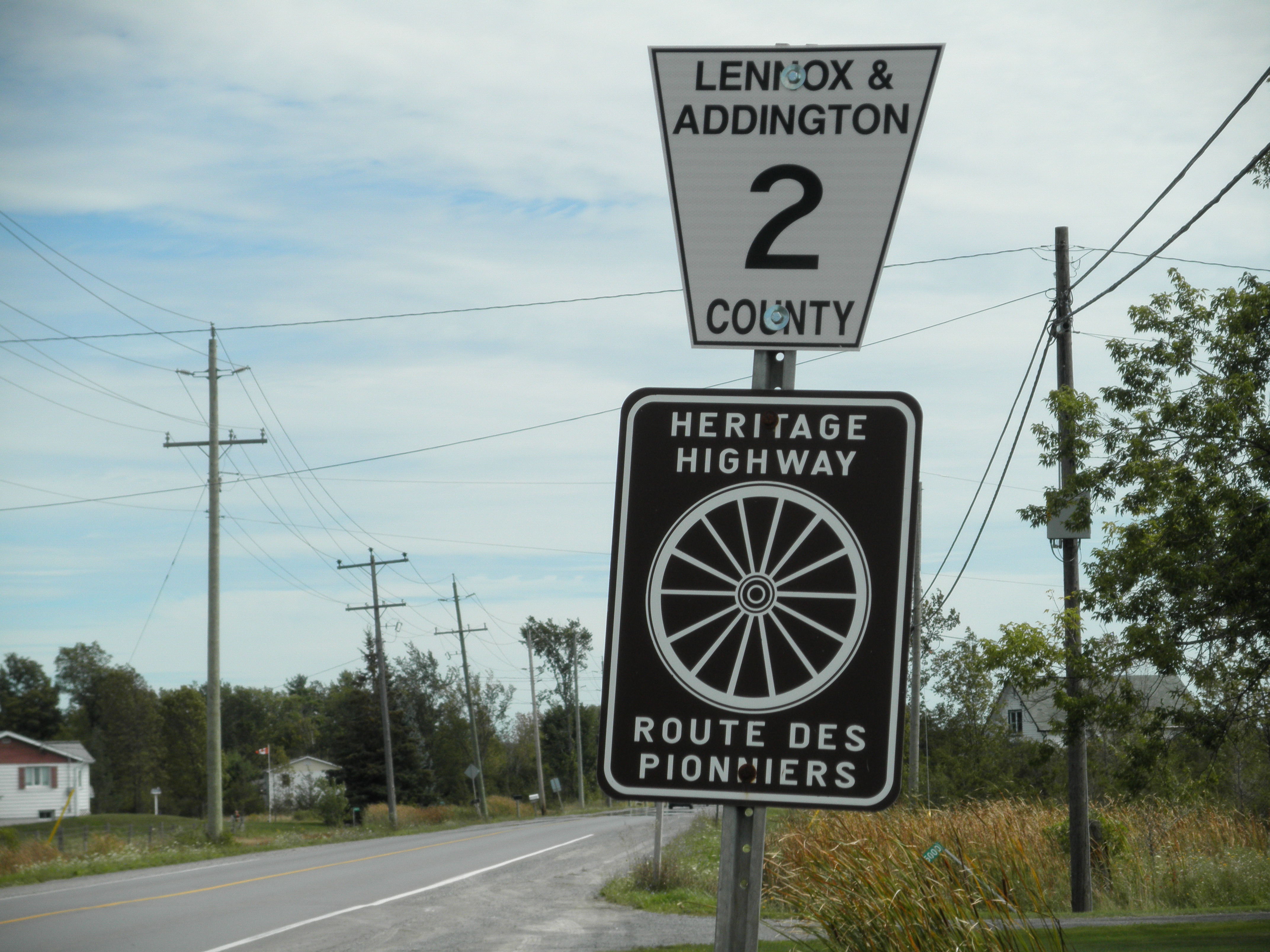 These signs used to appear on hundreds of miles of Ontario Highway 2, Québec Highway 2 (which was renumbered in the early 1970s) and eastward to the Gaspé peninsula as part of a 1970s joint tourism promotion. Signage is now sporadic on this route as much of the Ontario portion is now county road and many portions are part of other signed tourist routes.